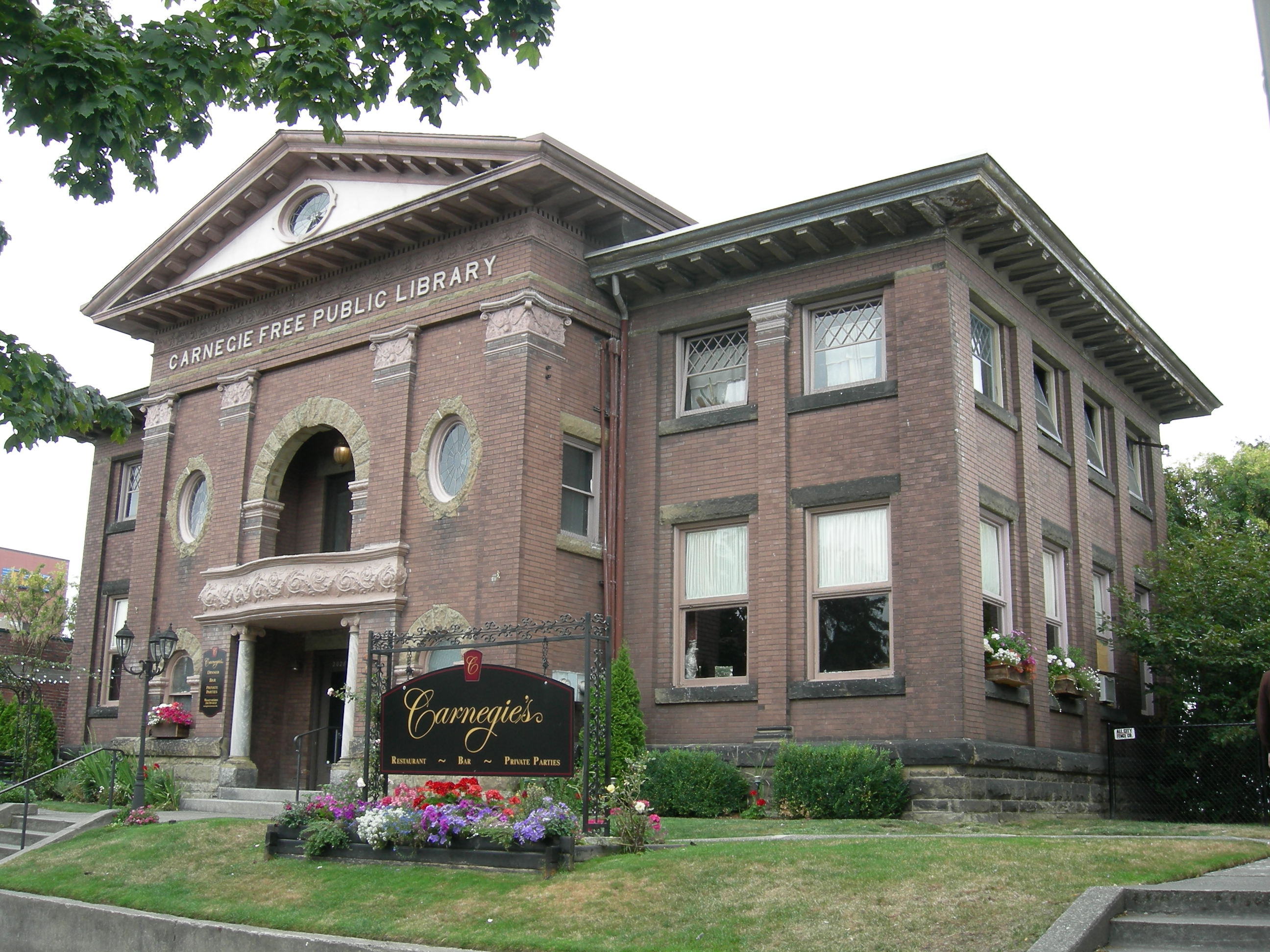 Old Carnegie Library, Ballard, Seattle, Washington, now shops and a restaurant. The building is on the National Register of Historic Places